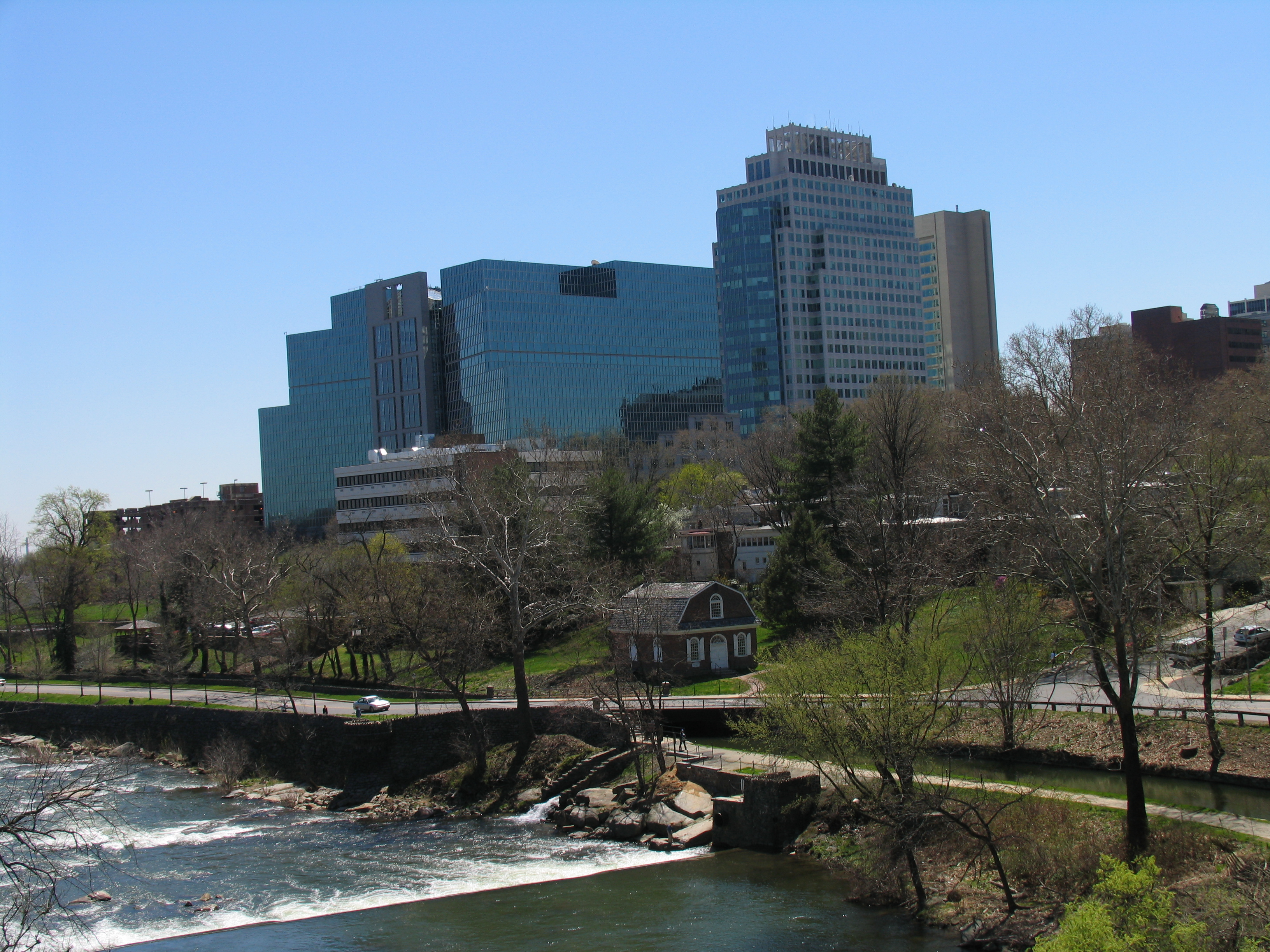 Looking south into the city of Wilmington, Delaware from the North Washington Street Bridge. The Brandywine Creek, with adjacent millrace, and Old First Presbyterian Church are visible in the foreground and center.